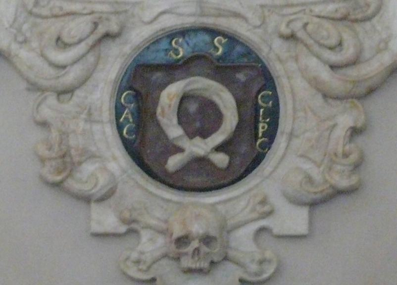 Nałecz coat of arms of Stanislaus Slawienski (Stanisław Slawieński) in his burial monument inside Gniezno Cathedral (circa 1661).